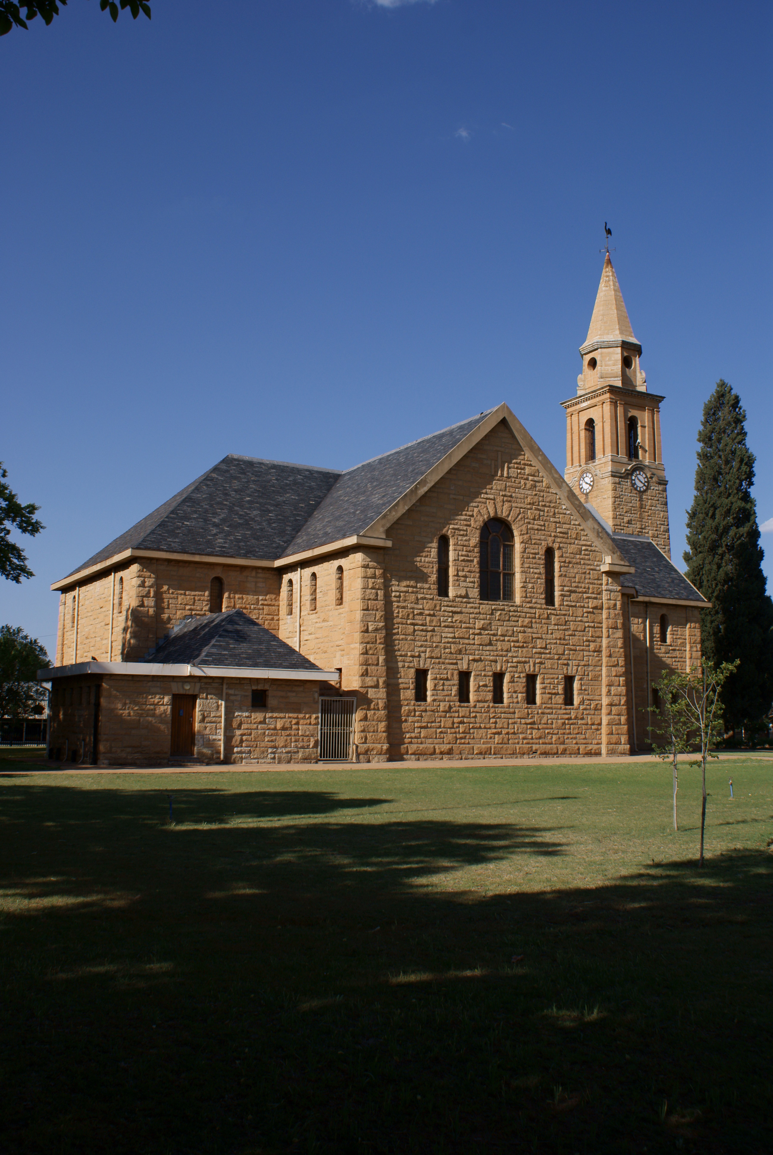 Dutch Reformed Mother Church, President Street, Bothaville This media shows a South African Protected Site with SAHRA file reference 9/2/304/0002zz.